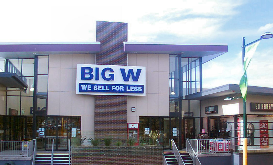 Picture taken 15-3-2006 on my kodak digital camera of Glenorchy Plaza - Main Entrance